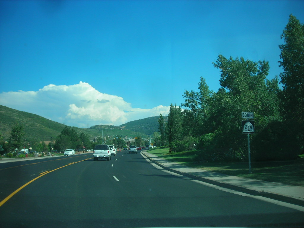 Utah State Route 224 southbound